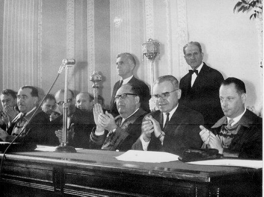 From right, Gyula Mérei, dean, Károly Kiss, politician, György Antalffy, rector